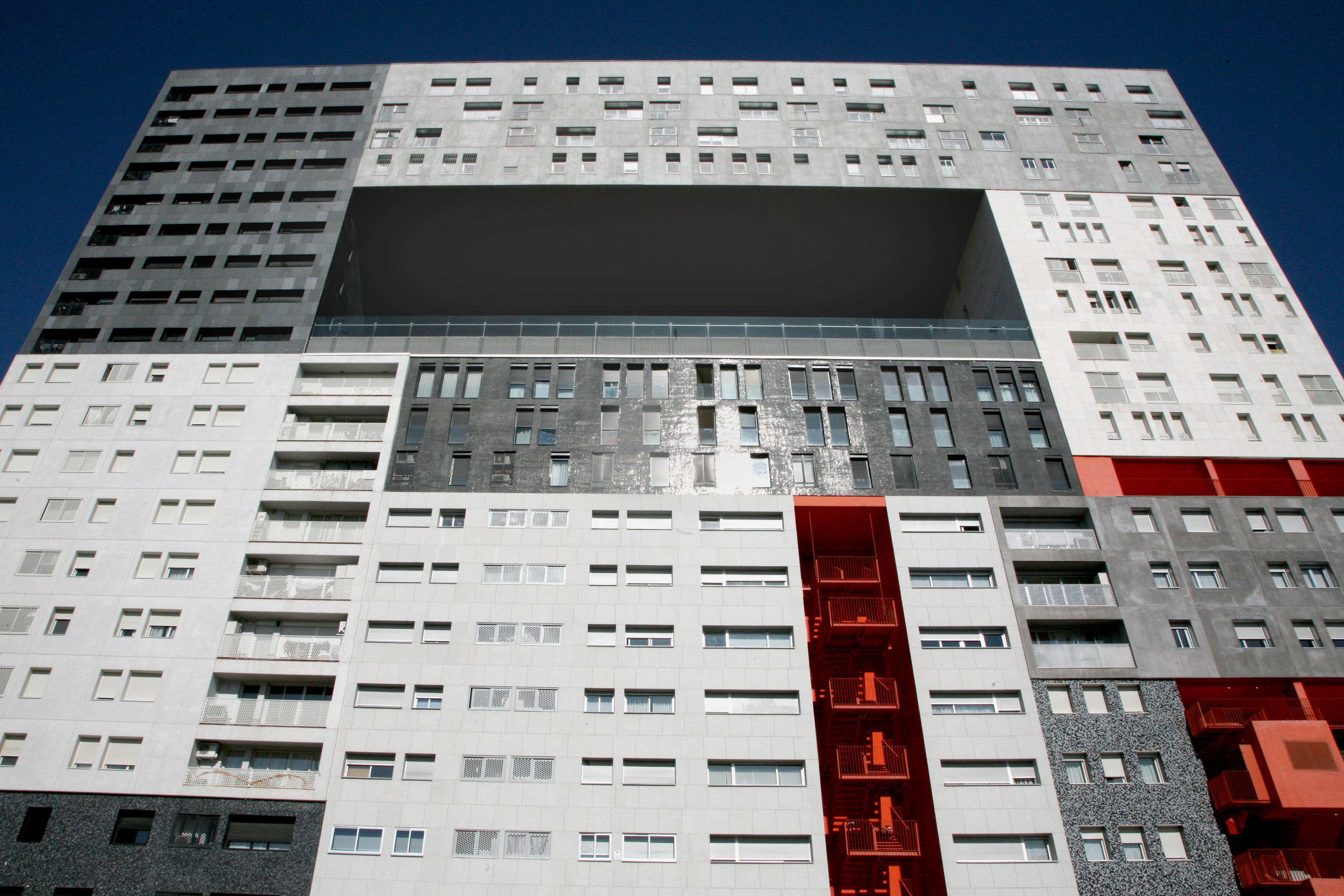 Building designed by MVRDV and Blanca Lléo in Madrid, Spain (2005).